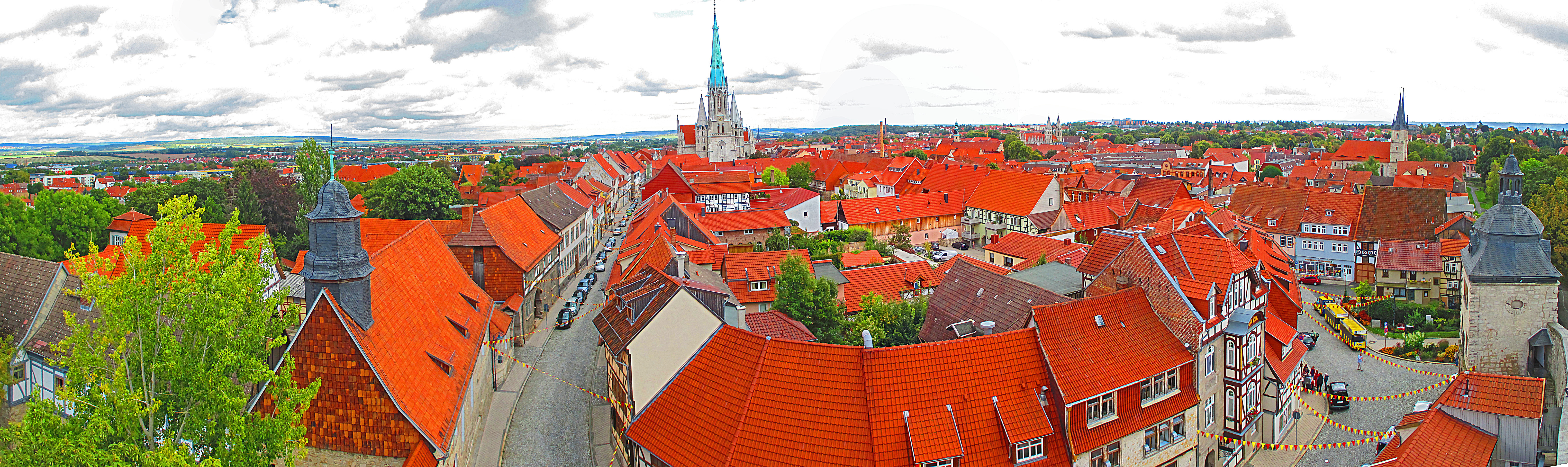 Panoramic view from Rabenturm in Mühlhausen/Thüringen.